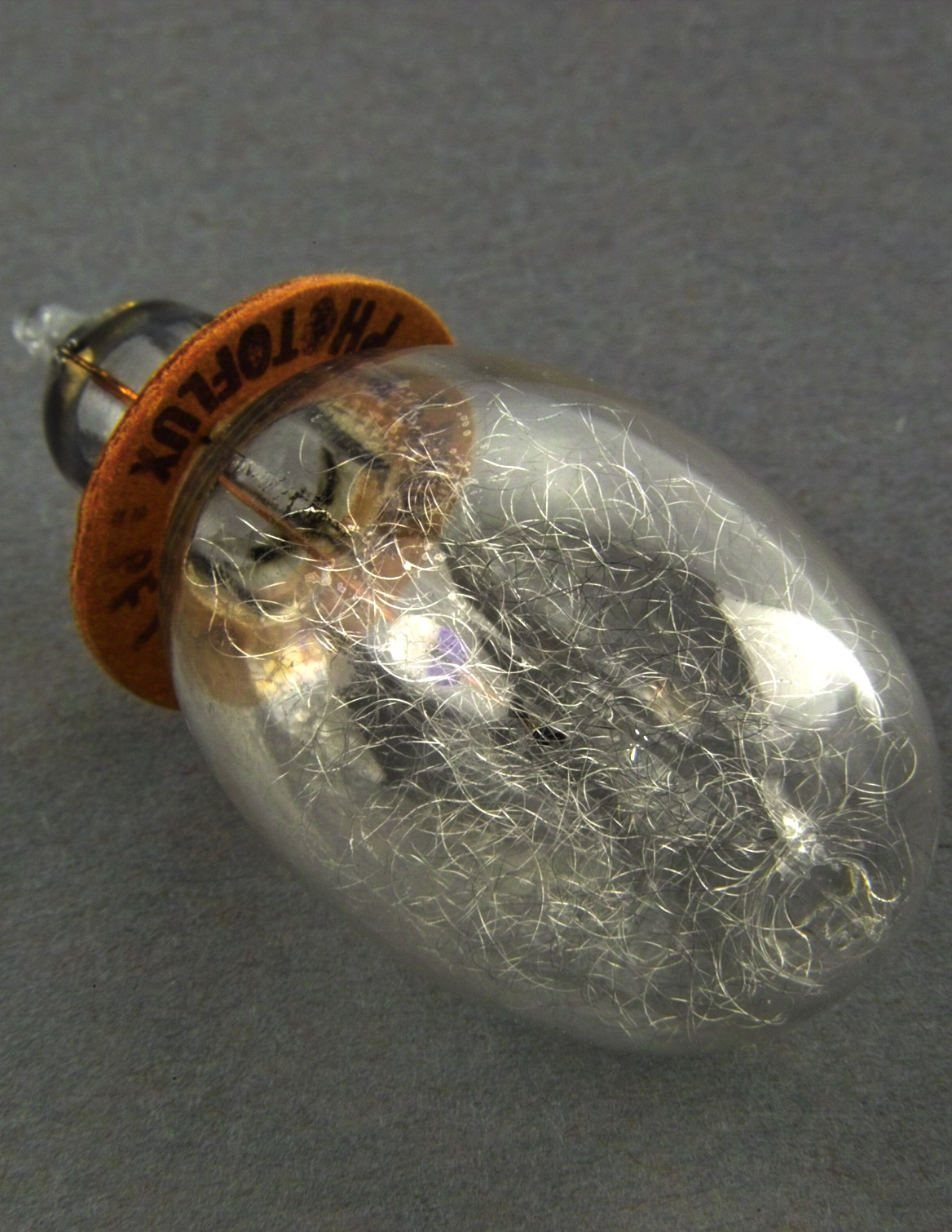 Flash bulb 'Photoflux' manufactured by Philips, containing filaments of magnesium.